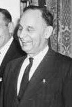 Territorial governor Waino Edward Hendrickson celebrating Alaska becoming a state in January 1959. A crop of File:Celebrating alaska statehood.jpg